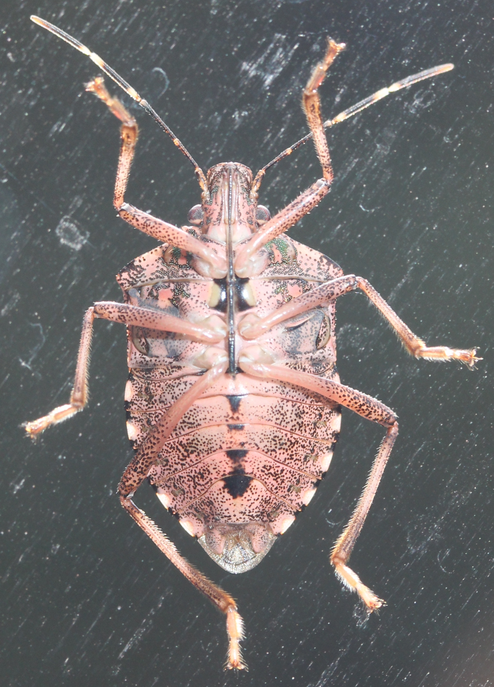 Halyomorpha halys in Ibigawa Town, Gifu Prefecture, Japan.